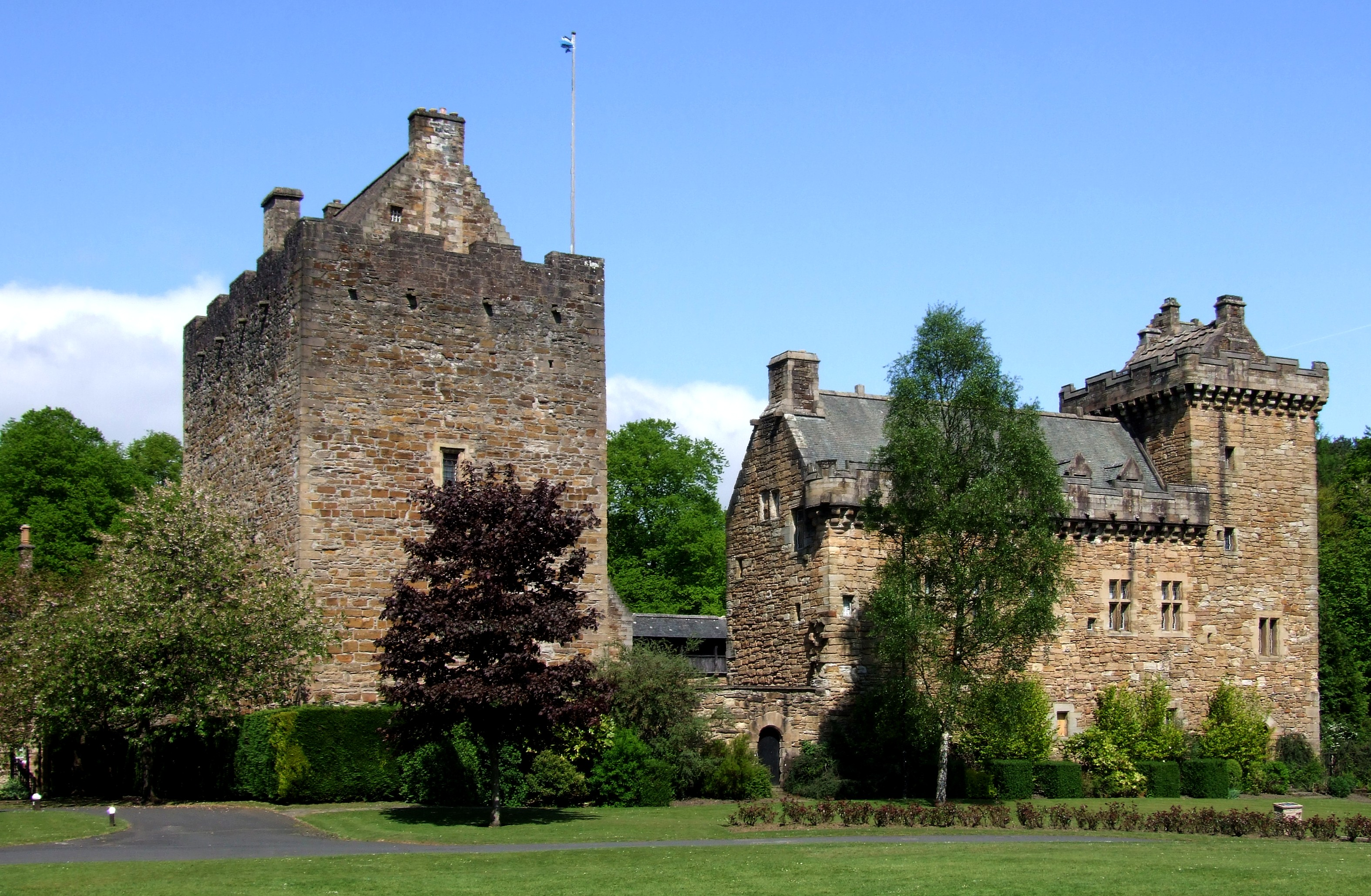 Dean Castle Spring Foliage